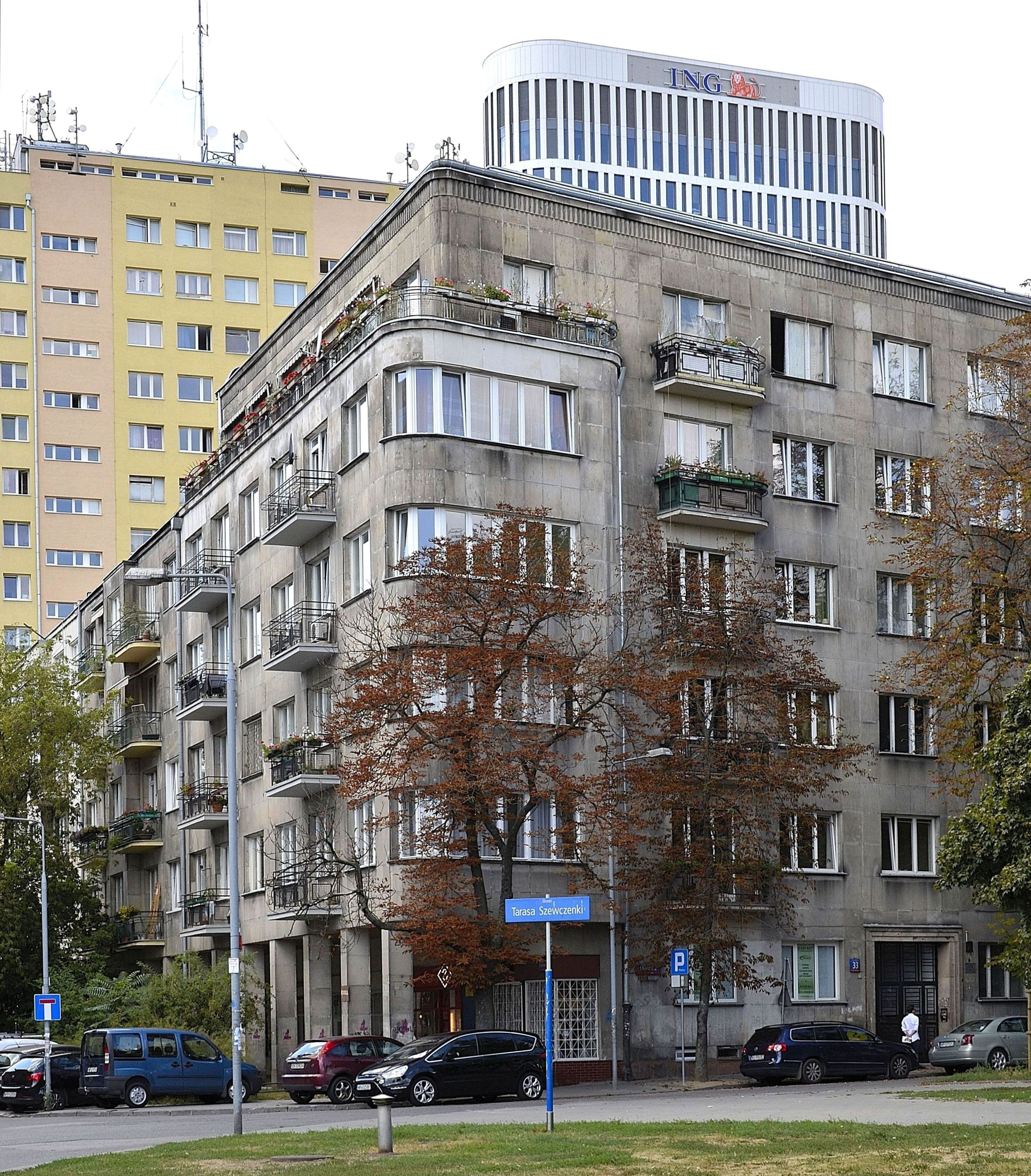 Townhouse at 33 Chocimska Street in Warsaw